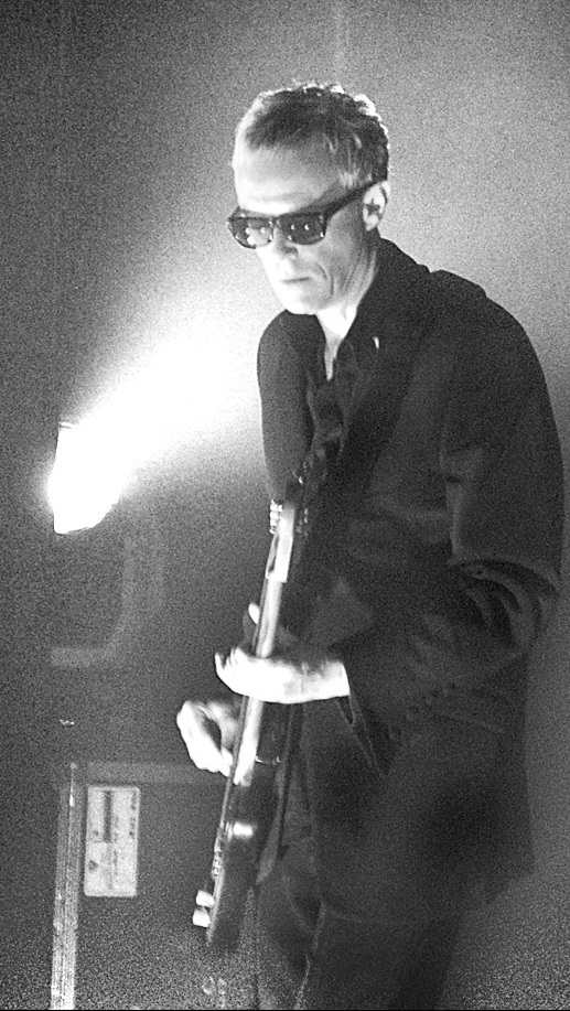 Cropped photo of bassist David J in concert with Bauhaus in London.